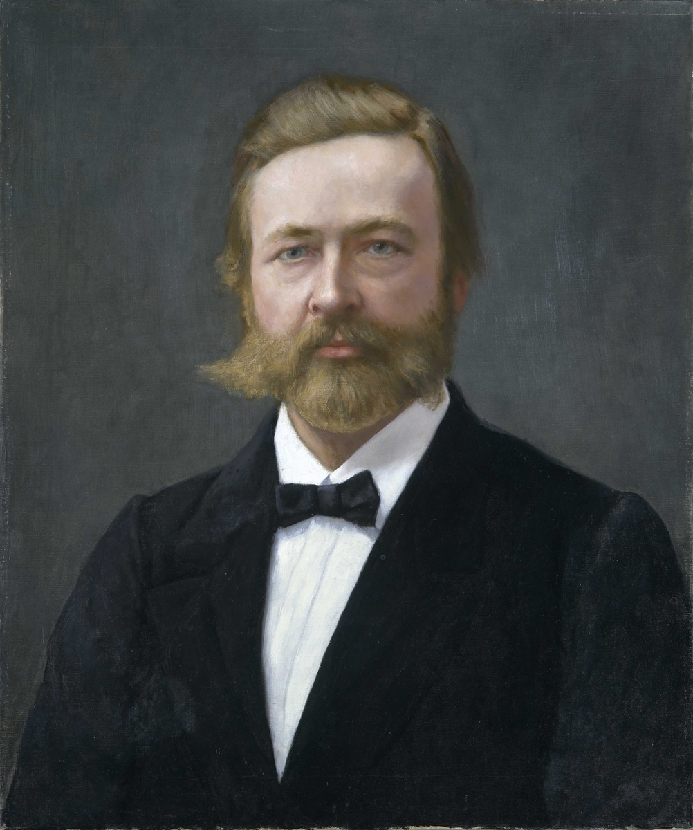 Painting after a photograph from ca. 1890.